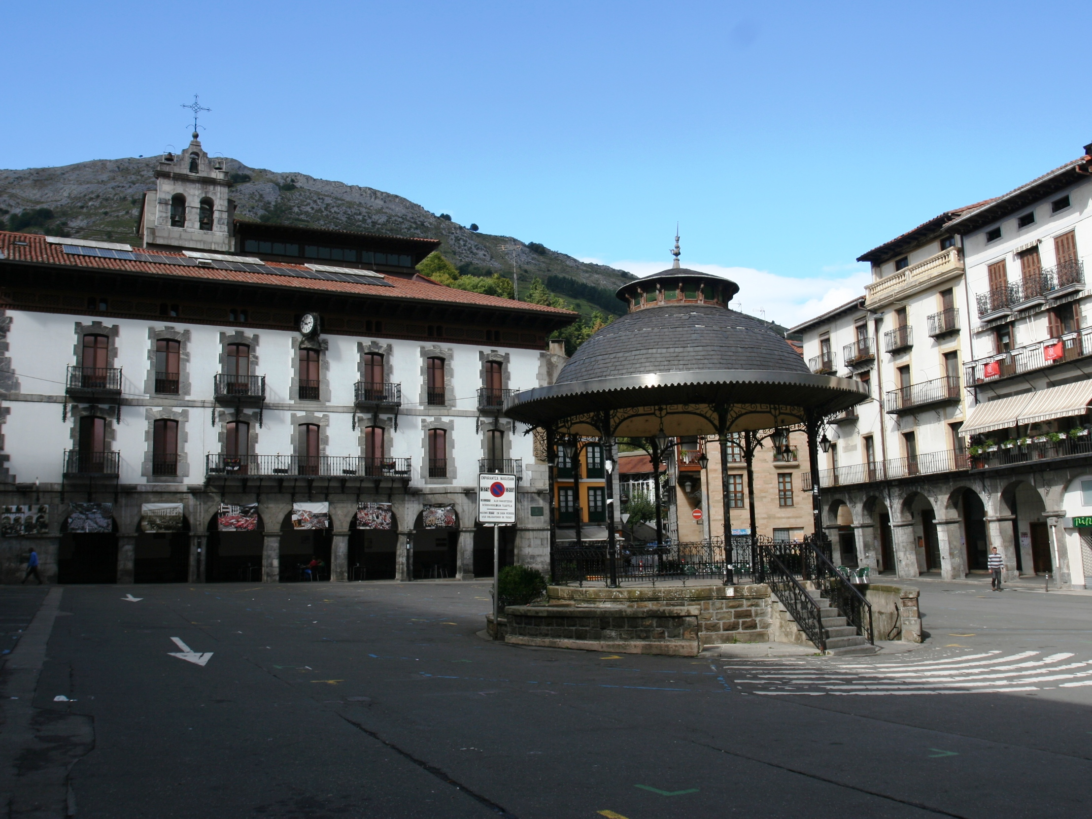 Azpeitia, Plaza Nagusia